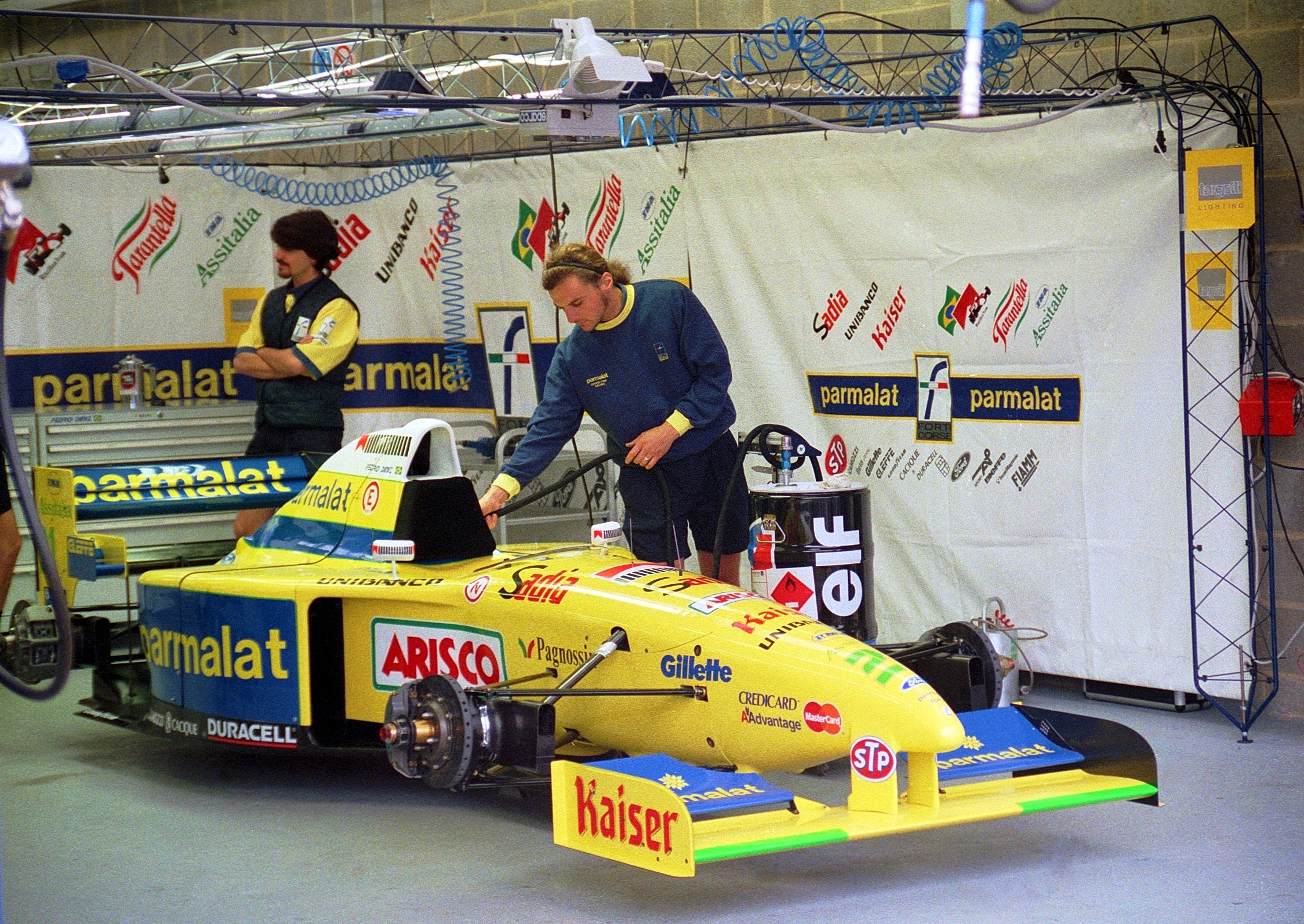 Forti FG01 - Pedro Diniz in the pit garage at the 1995 British GP, Silverstone